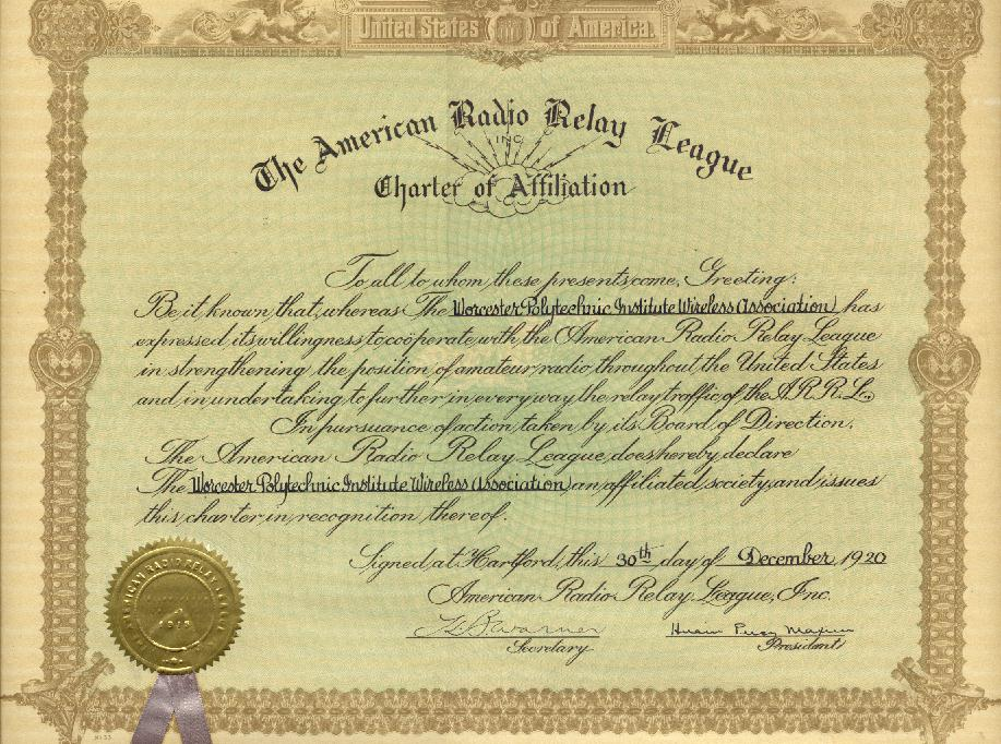 CHarter of affiliation of Worcester Polytechnic Institute Wireless Association with the American Radio Relay League